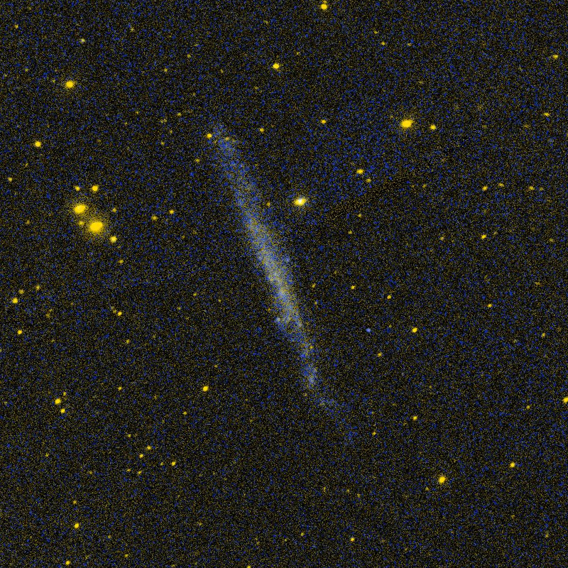 UV image of the galaxy NGC 1560; 1.8″ per pixel